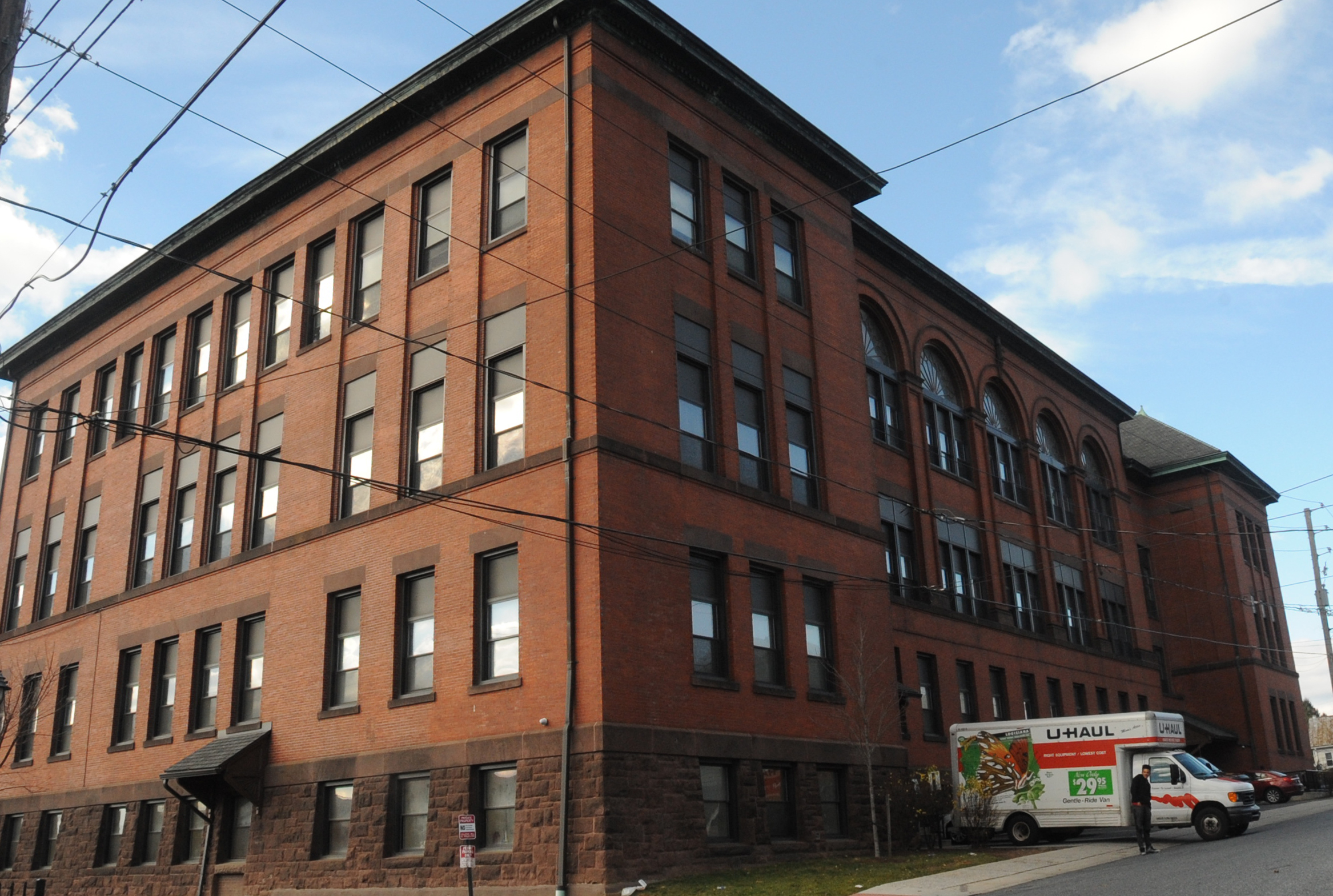 AKA Felton School. Built starting in the 1880s and added to on numerous occasions between 1882 and 1990. It is now known as the Felton Lofts.